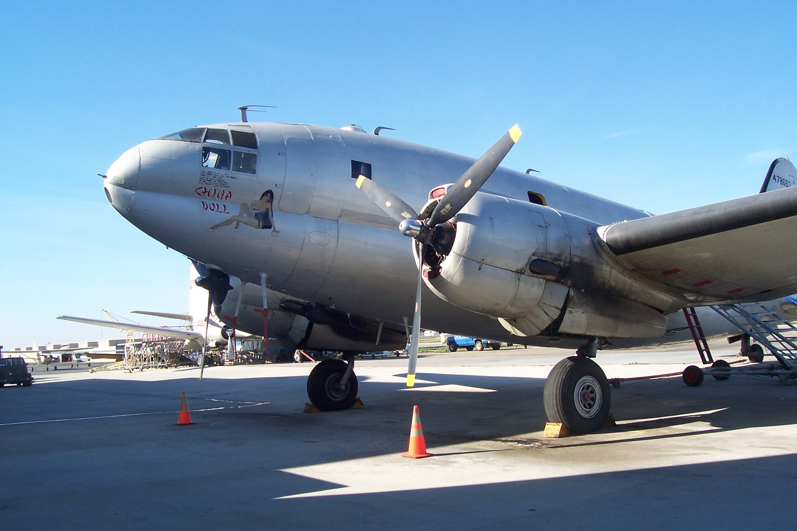 Curtiss C-46 Commando